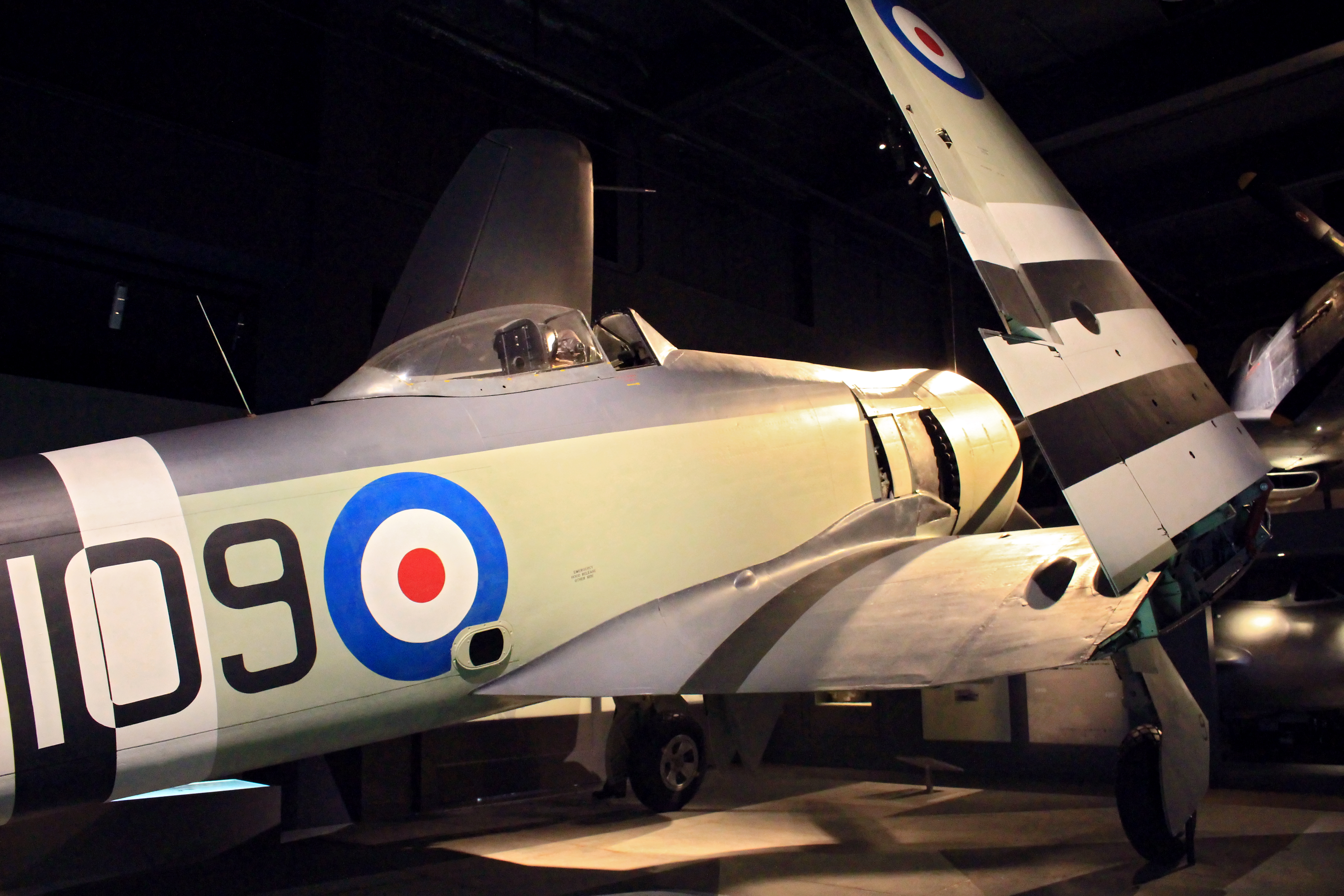 Located at the Australian War Memorial, Canberra displayed on carrier deck diorama as RAN VX730/109K.